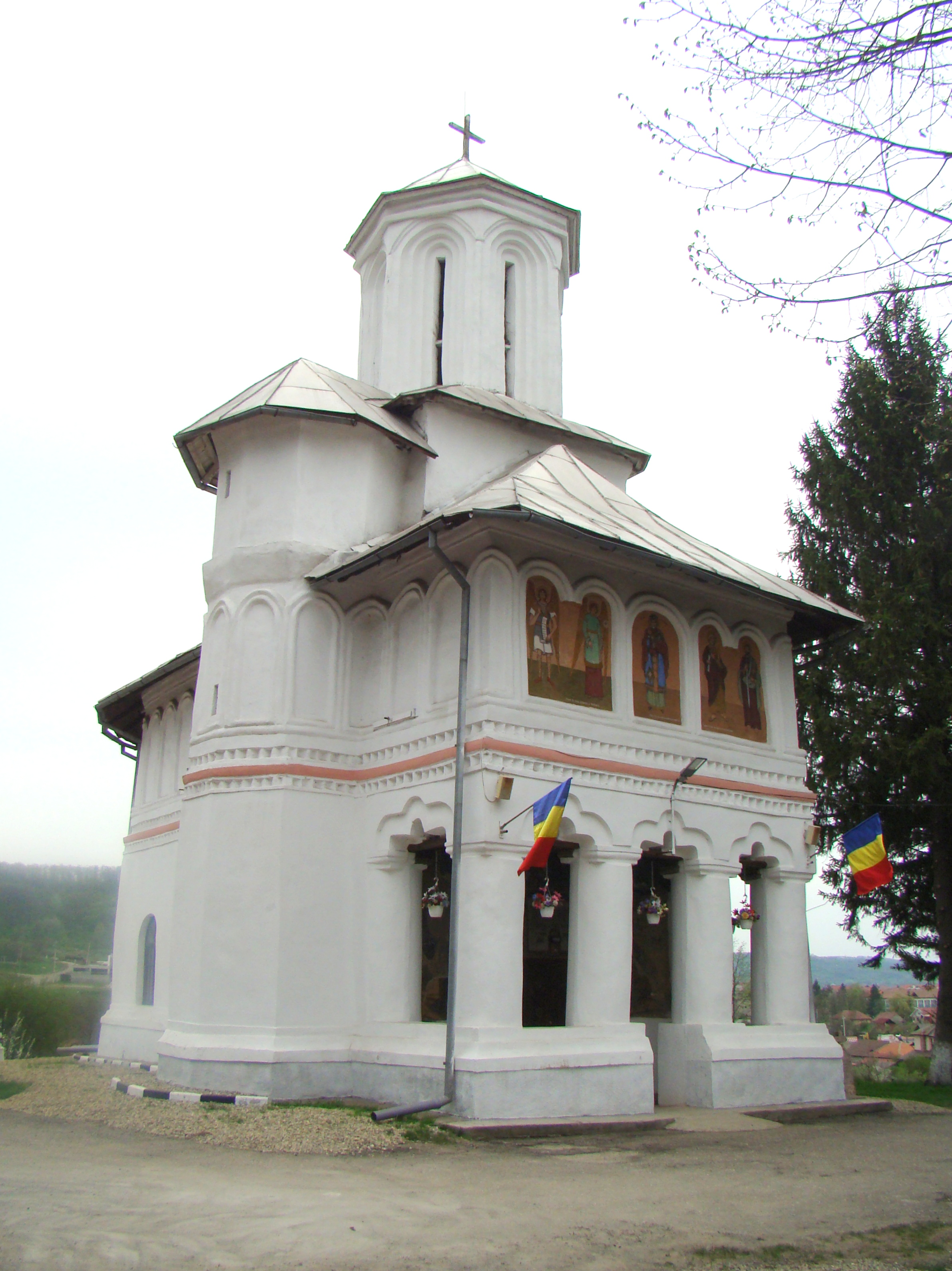 Saint Nicholas church in Lupoaia, Gorj county, Romania